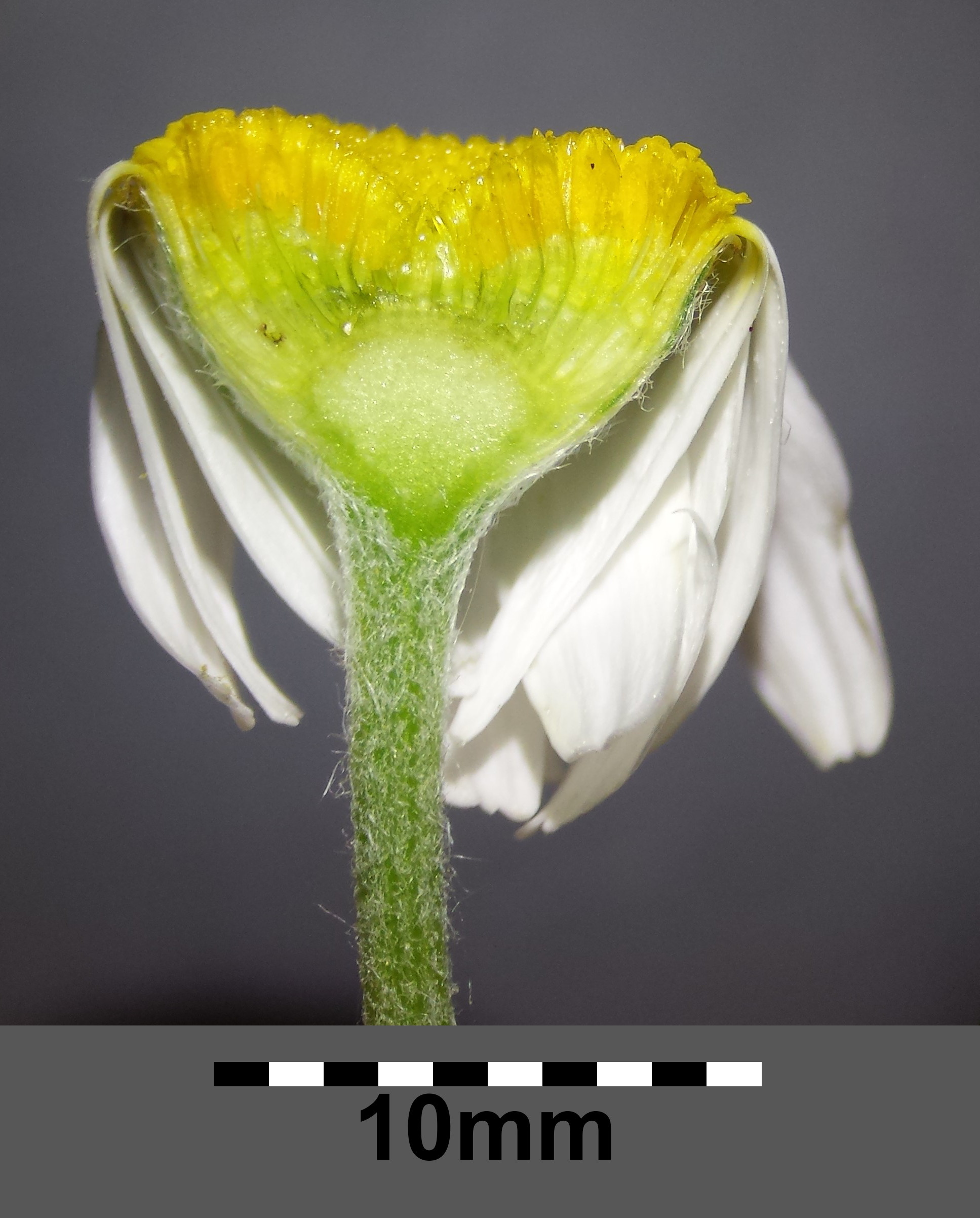 Flower basket cut-through Taxonym: Anthemis austriaca ss Fischer et al. EfÖLS 2008 ISBN 978-3-85474-187-9 Location: near Steinberg near Niederhollabrunn, district Korneuburg, Lower Austria - ca. 300 m a.s.l. Habitat: border of a field